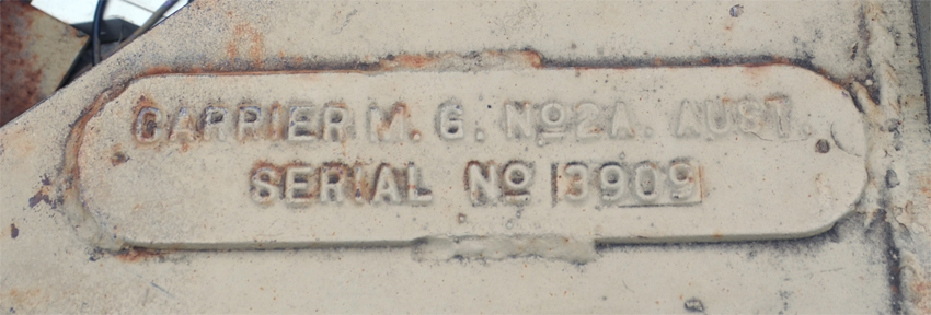 Fitted with modern substitute engine